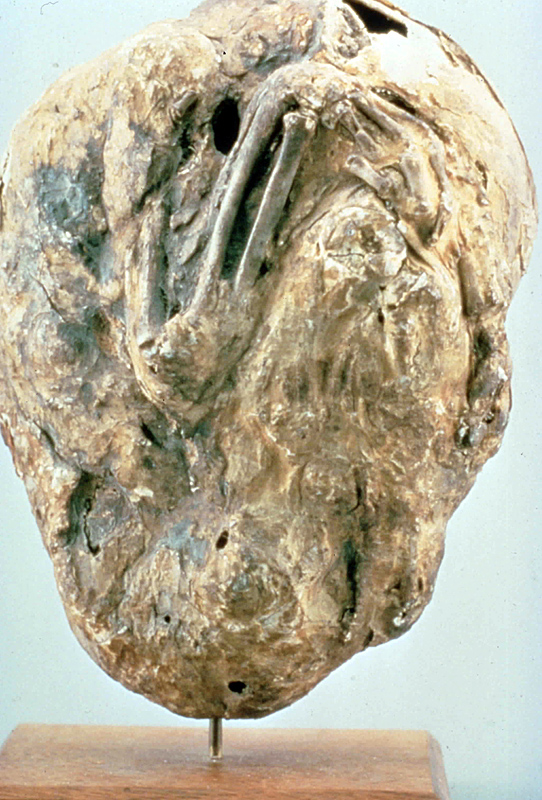 Lithopedion : Calcified Fetus. Remained inside woman for over 50 years.